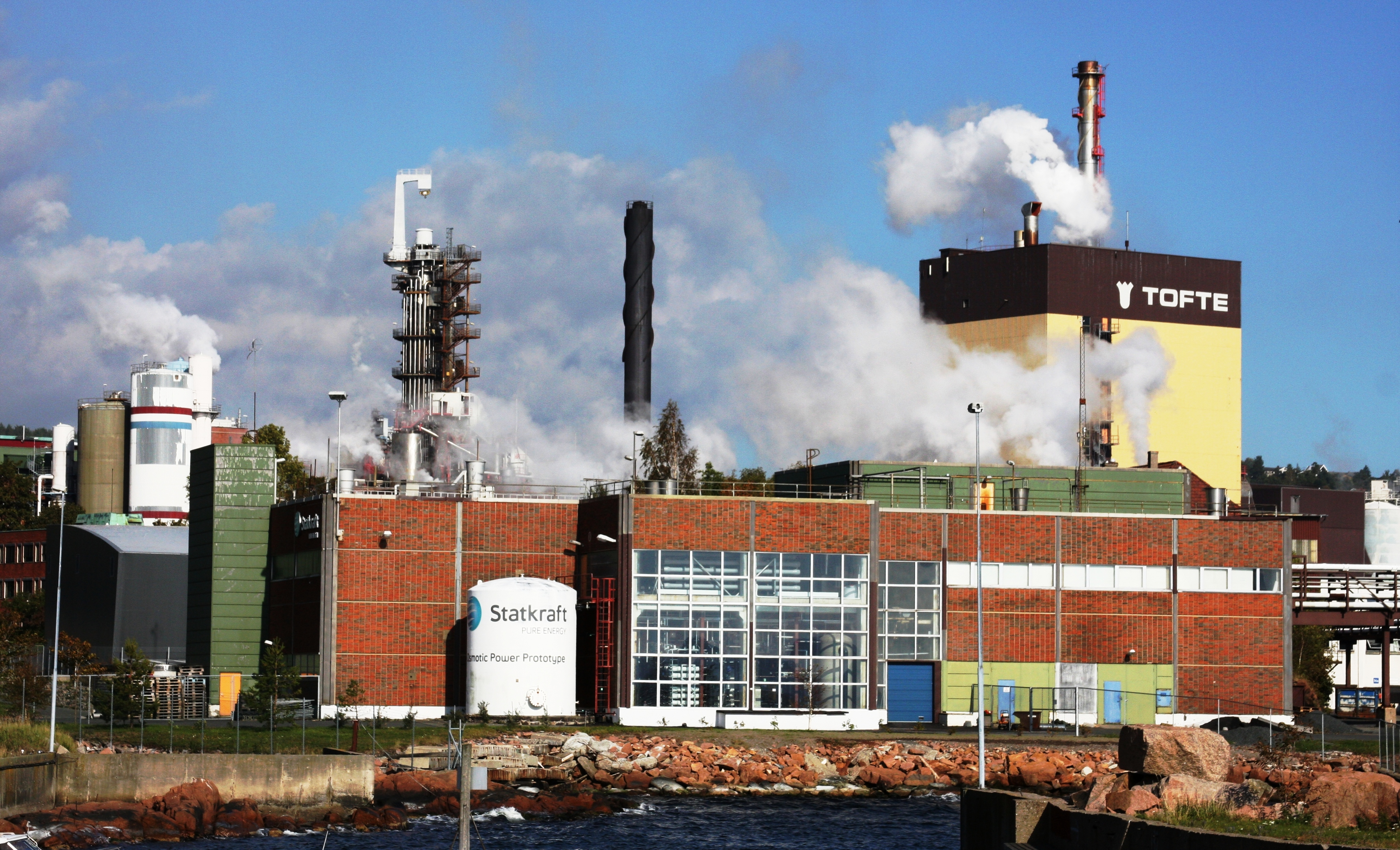 The Statkraft ASA osmosis power plant in Tofte, Hurum (Buskerud, Norway). This was the first osmosis power plant in the world. The factory in the background is Södra Cell wood-processing plant (pulp, etc).